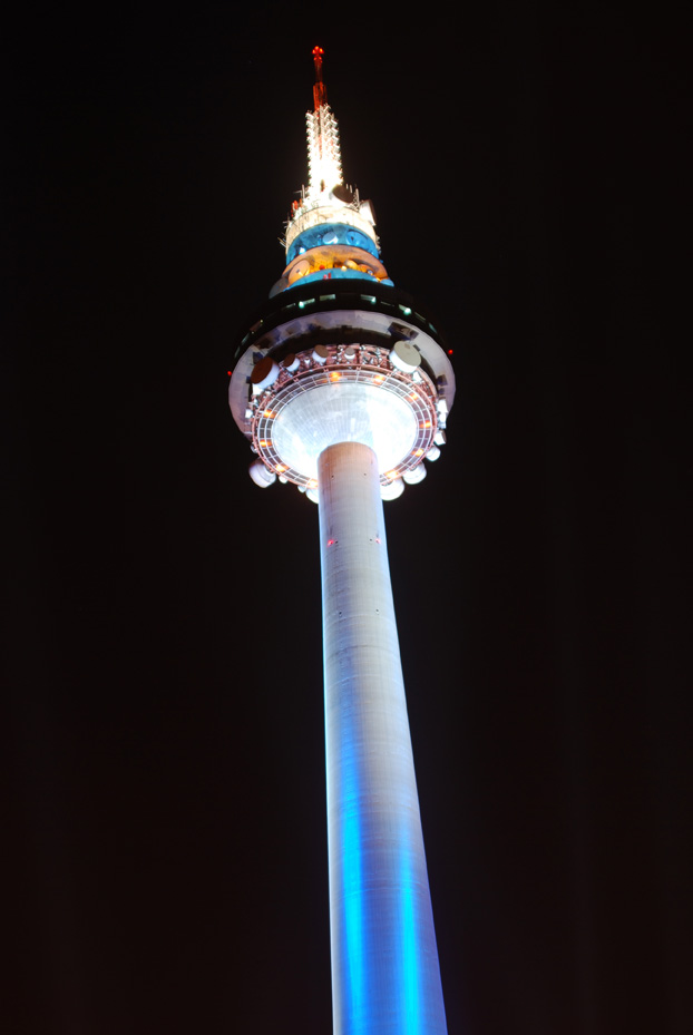 Night view of Torrespaña (a TV and radio tower) in Madrid (Spain).